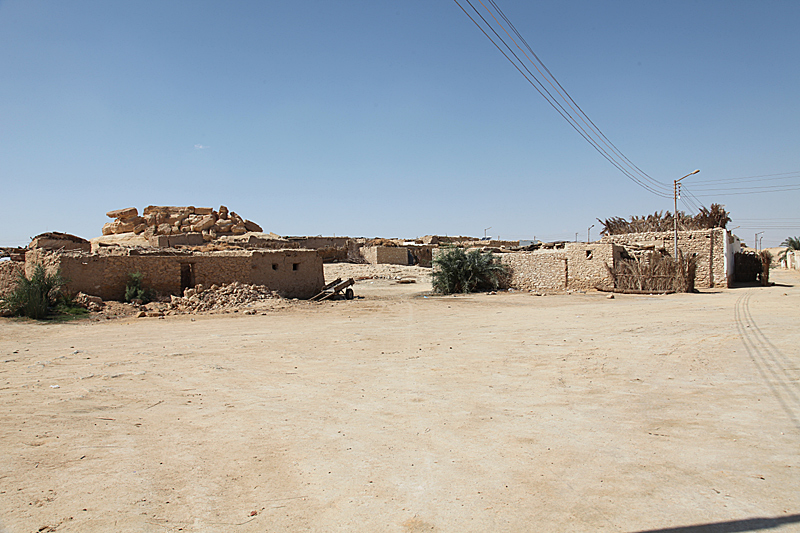 Modern village of Qarat Umm el-Sugheir, Siwa depression, Egypt